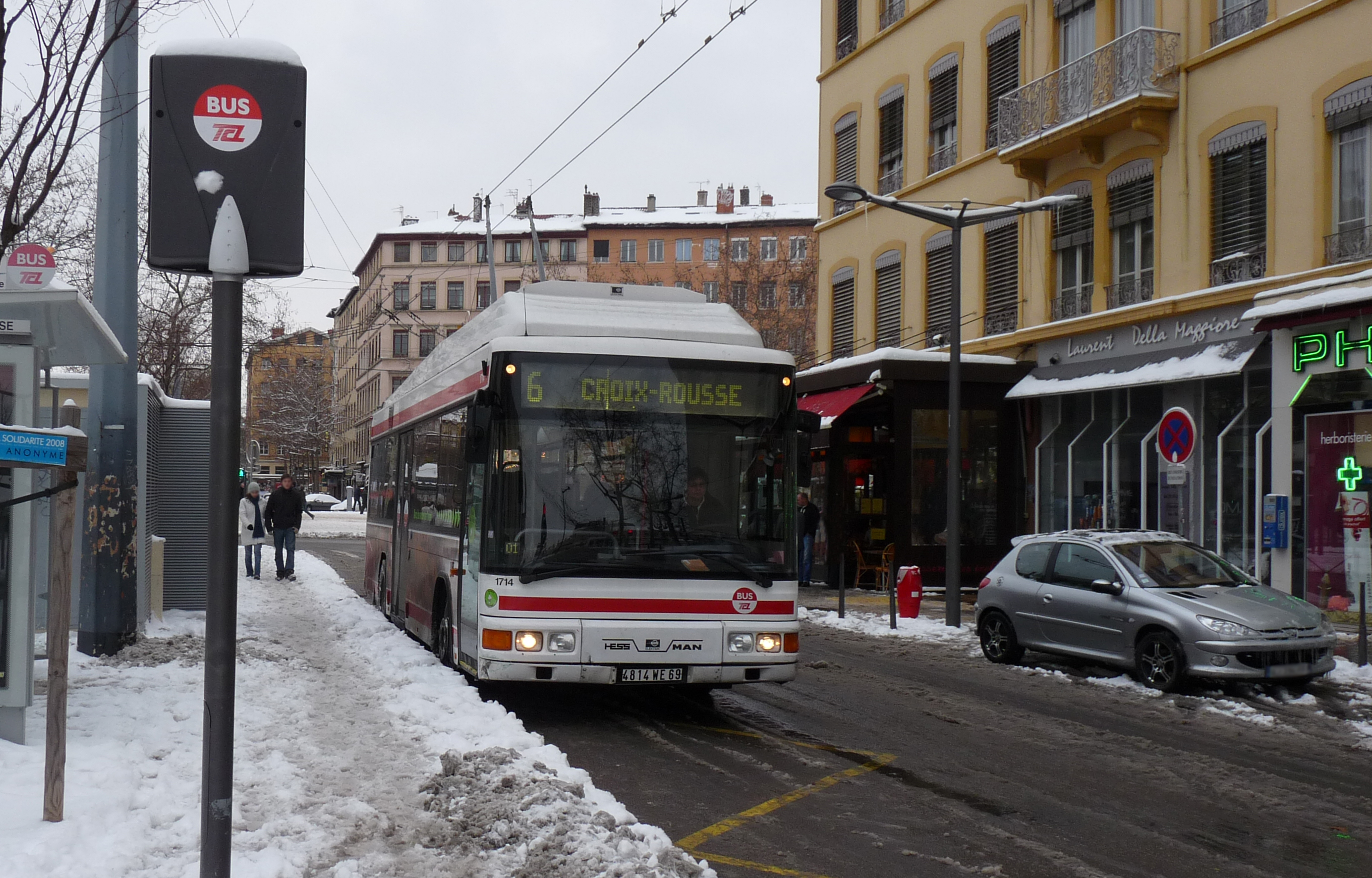 MAN-built NMT 222 trolleybus in Lyon, France, on route 6.